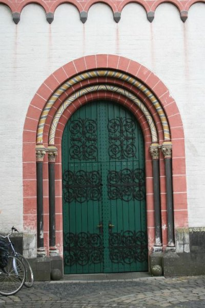 Cultural heritage monument No. 1 in Kempen